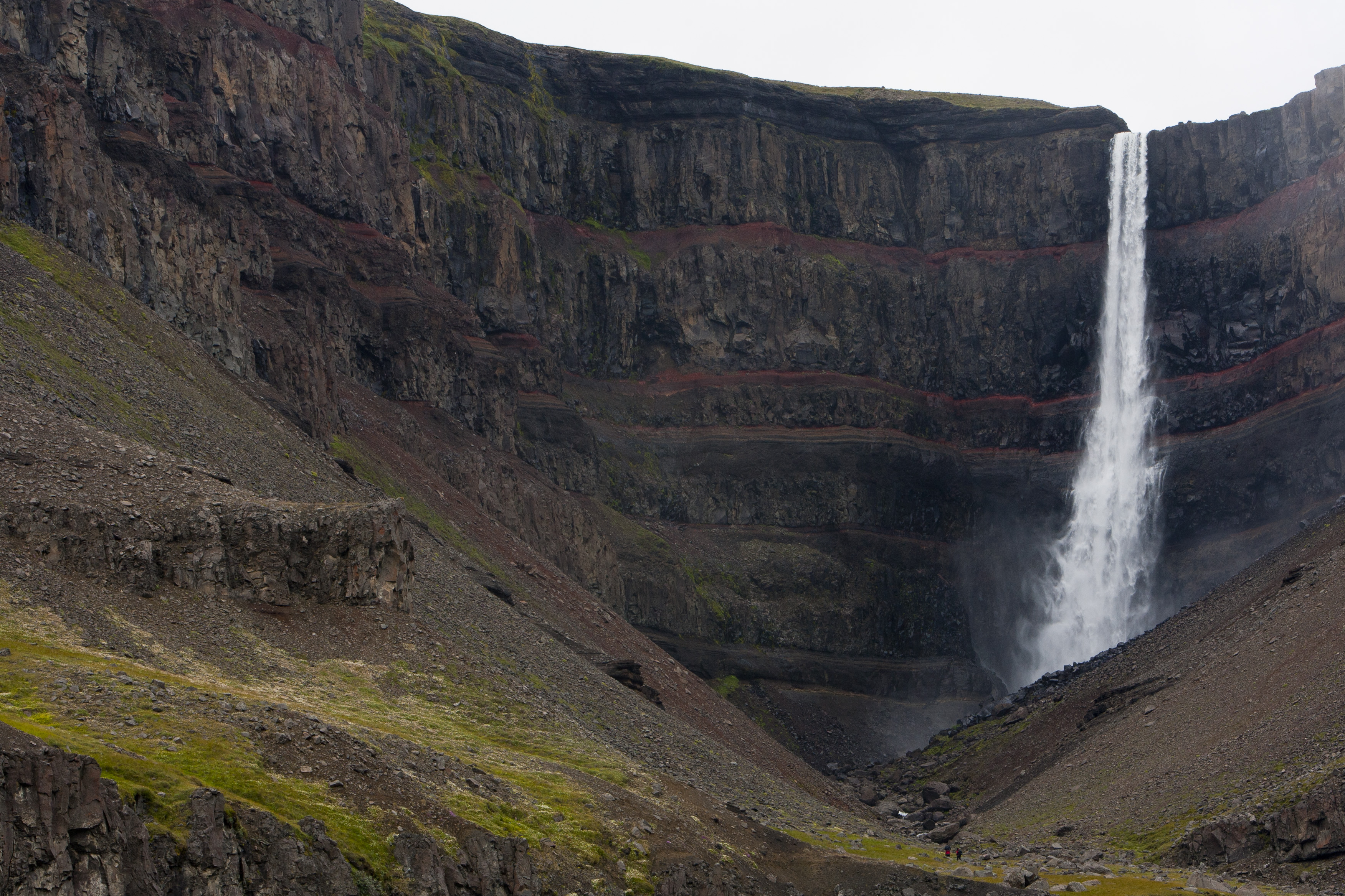 Hengifoss, Fljótsdalur, Iceland